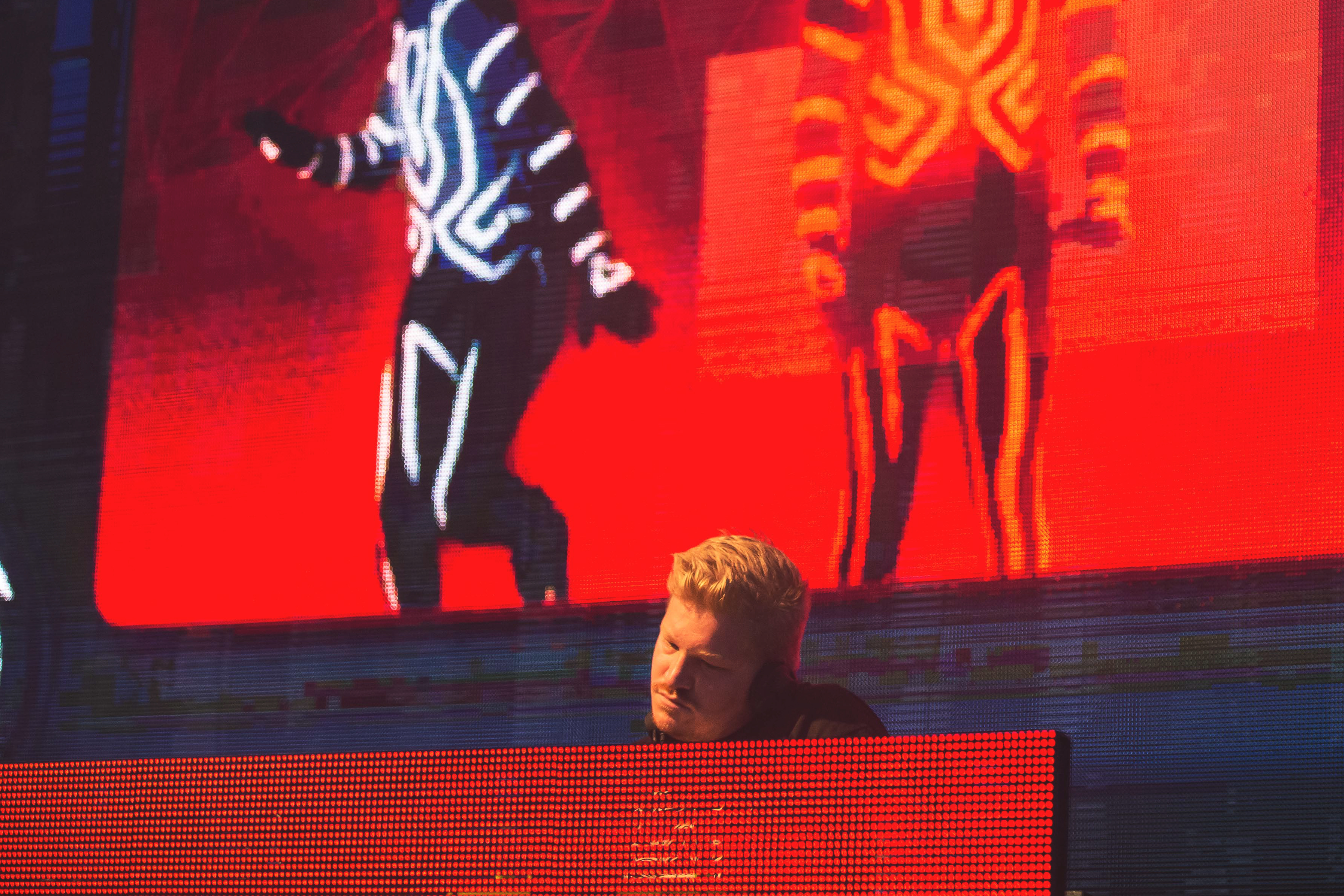 Live Matthew S at MTV Digital Days 205